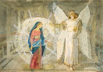 Ангел господній